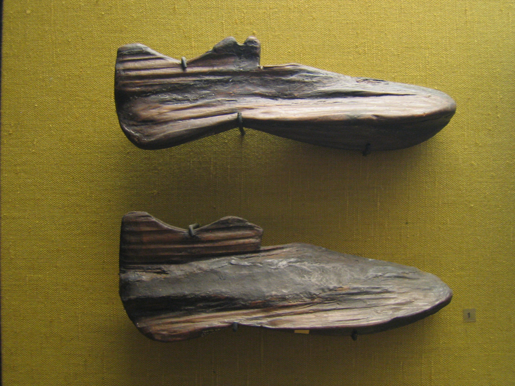 Alamannic lasts from Oberflacht, 7th century. Photographed at Württembergisches Landesmuseum Stuttgart, Germany.